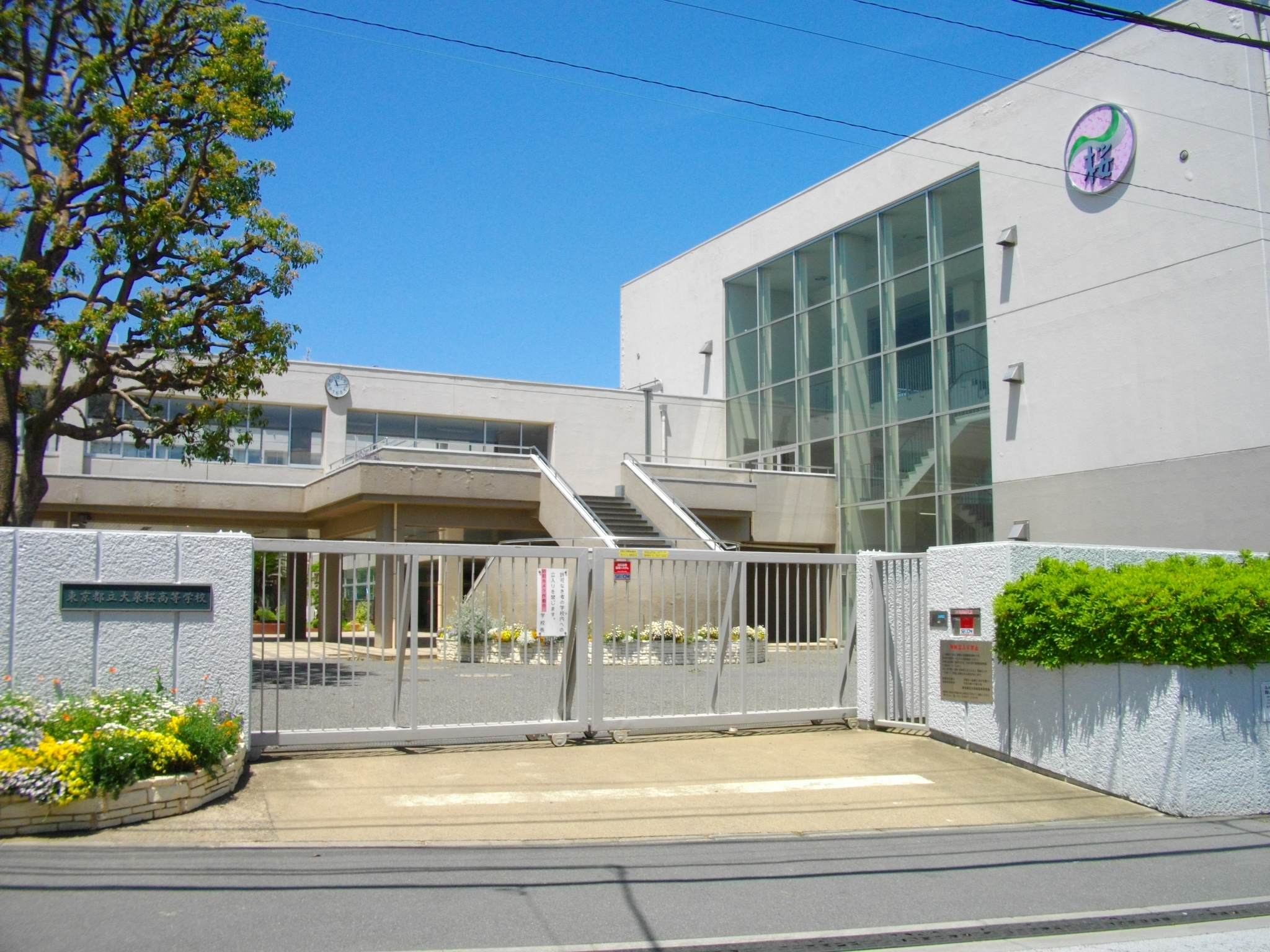 Oizumi Sakura High School